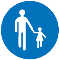 Luxembourg road sign diagram